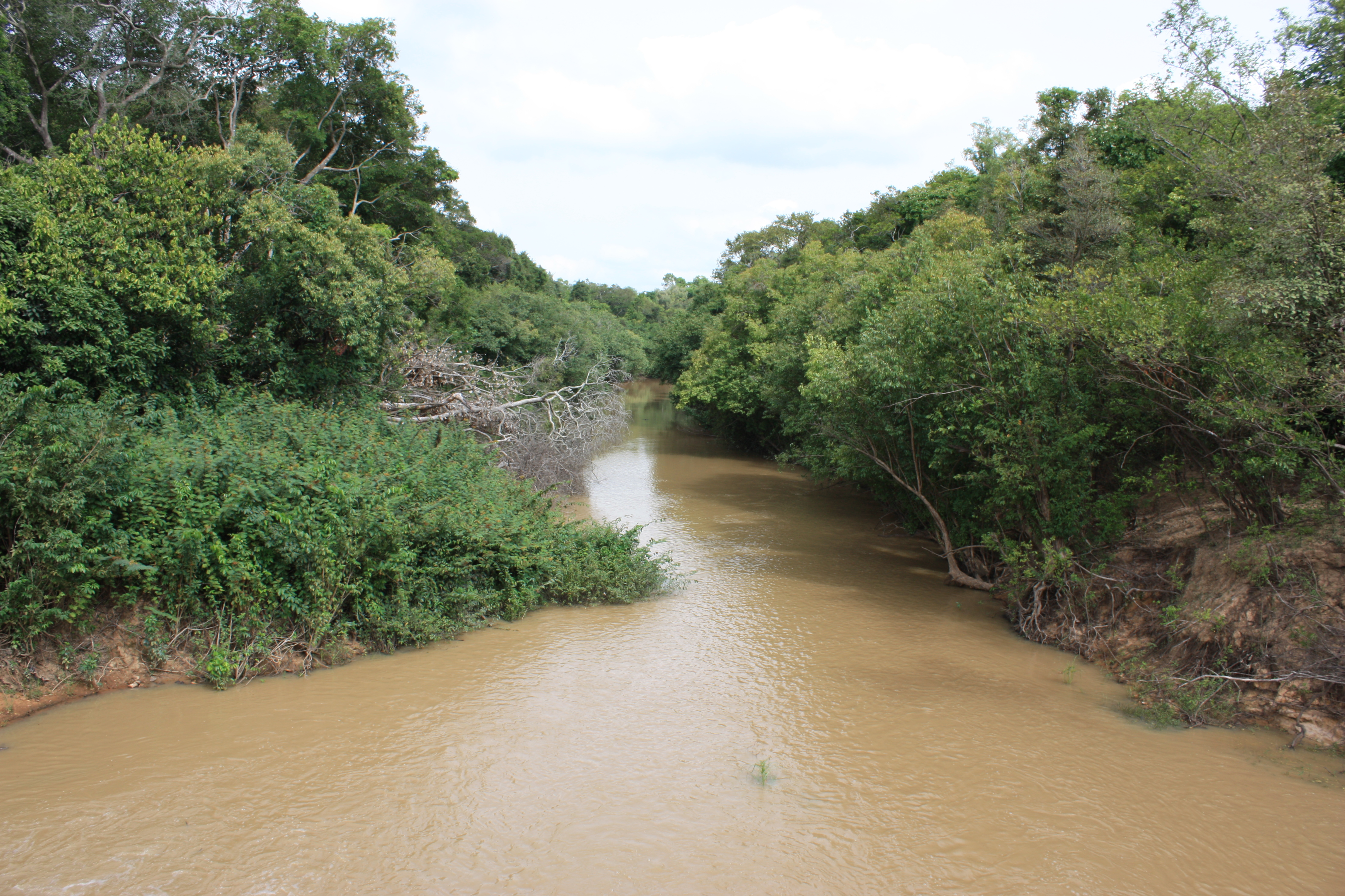 Comoe River near Folonzo, Comoe-Leraba Reserve, Burkina Faso